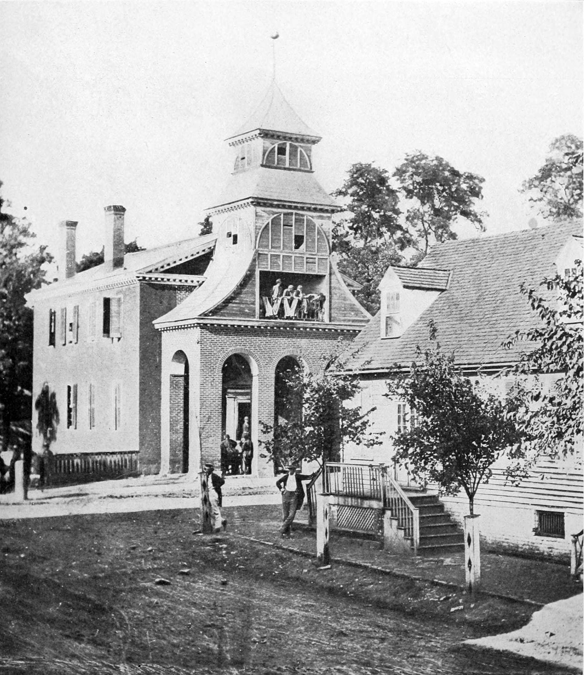 Title: The photographic history of the Civil War : thousands of scenes photographed 1861-65, with text by many special authorities Year: 1911 (1910s) Authors: Miller, Francis Trevelyan, 1877-1959 Lanier, Robert S. (Robert Sampson), 1880- Subjects: United States -- History Civil War, 1861-1865 Pictorial works United States -- History Civil War, 1861-1865 Publisher: New York : Review of Reviews Co. Text Appearing Before Image: ' Text Appearing After Image: PATRIOT Pub. CO. CONFEDERATES CAPTURED AT CEDAR MOUNTAIN, IN CULPEPER COURT HOUSE, AUGUST, 1802 The Confederate prisoners on the baleony seem to be taking their situation very placidly. They have evidently been doing some familylaundry, and liavc hung the results out to drj-. The sentries lounging beneath the colonnade below, and the two languid individualsleaning up against the porch and tree, add to the peacefuhiess of the scene. At the battle of Cedar Moimtain, August 9, 1861, theabove with otlicr Confederates were captured and temporarily confined in this county town of Culpeper. Like several other Virginiatowns, it does not boast a name of its own, but is universally known as Culpeper Court House. A settlement had grown up inthe neighborhood of the courthouse, and the scene was enlivened during the sessions of court by visitors from miles around.